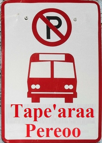 Bus stop sign. (Language to be confirmed – possibly Tahitian. It's not New Zealand Maori.)